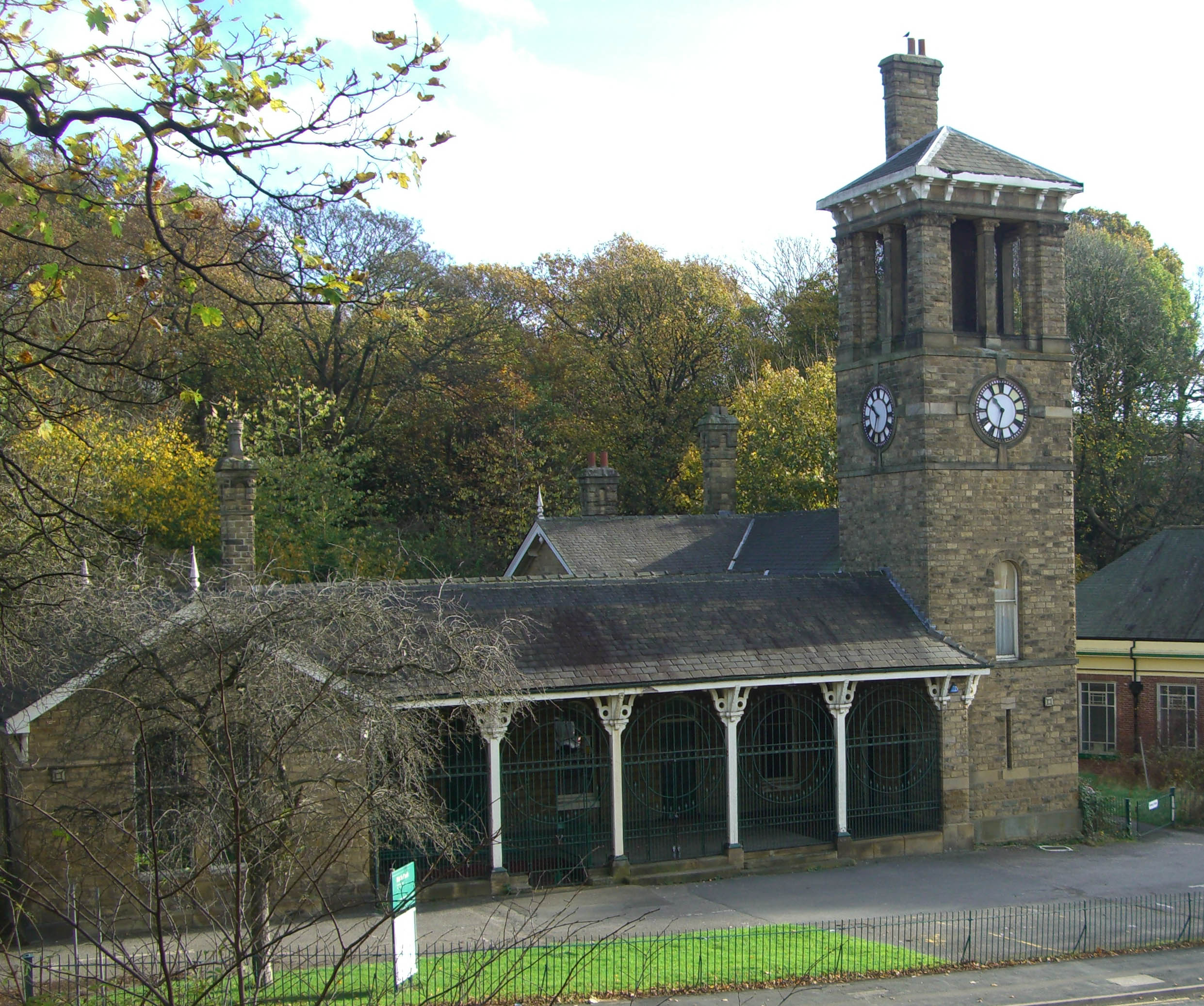 The pavilion / lodge at Firth Park in Sheffield, England. A Grade II listed building.